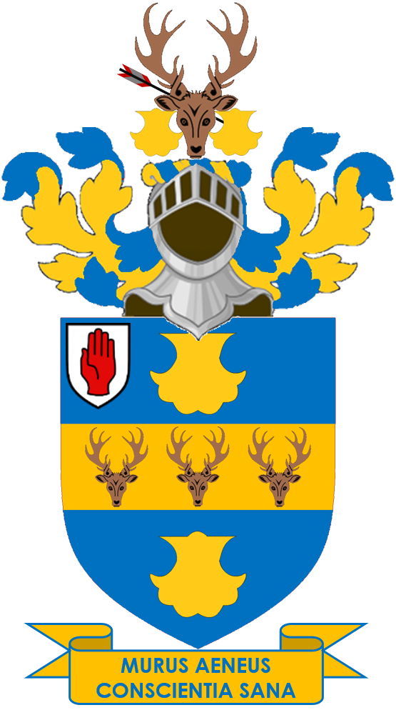 The armorial achievement of the Loder baronets of Whittlebury and High Beeches